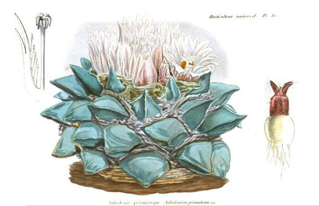 Anhalonium prismaticum